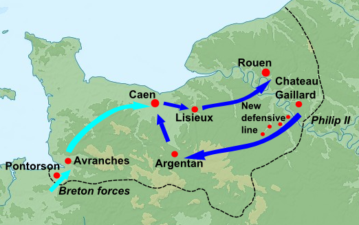 Blank topographic map of France in the official Lambert-93 projection, with details of Normandy campaign in 1205 overlaid, information from Warren "King John", p.98. Note: The background map is a raster image embedded in the SVG file.